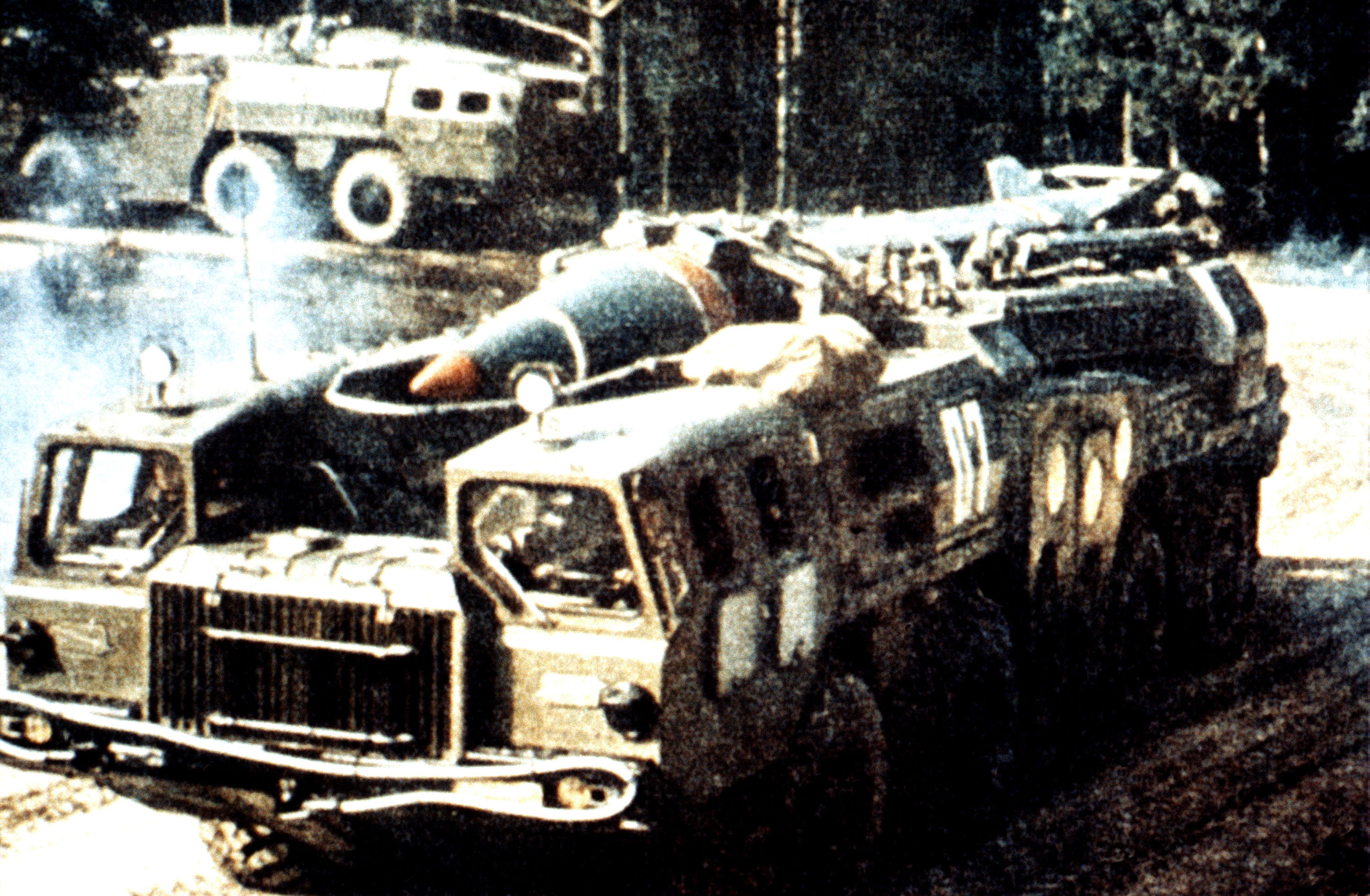 SS-1C Scud B missiles on transporter-erector-launcher. Courtesy of Soviet Military Power, 1984. Photo No. 50, page 53. (Released to Public)